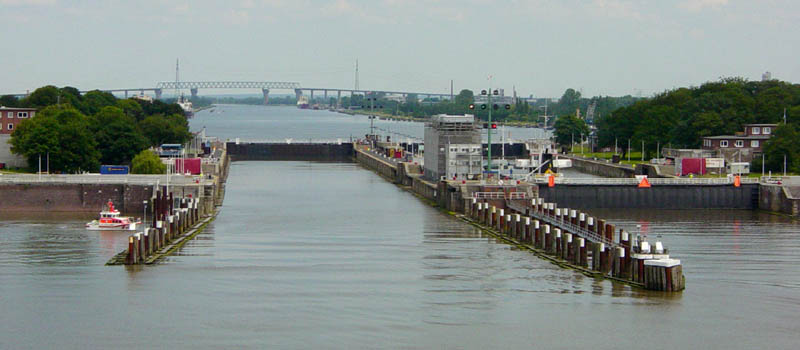 Kiel Canal North Sea locks at Brunsbüttel. The lock to the right has a ship locking down, while our ship is about to enter the lock ahead. Unlike most canal locks these use sliding gates.